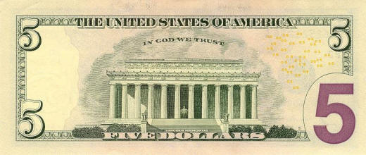 Reverse of the redesigned $5 bill.